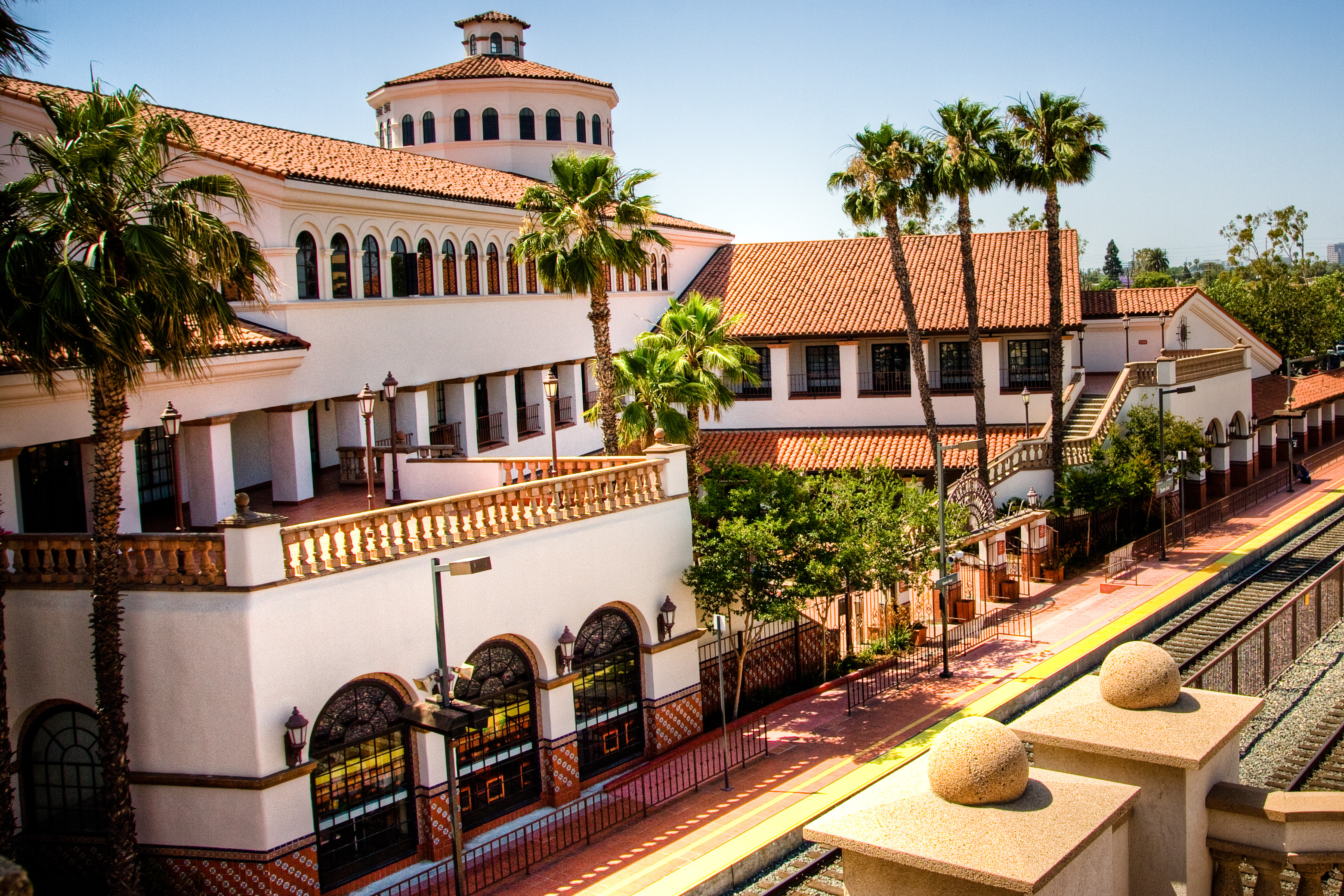 The Amtrak station in Santa Ana, California.